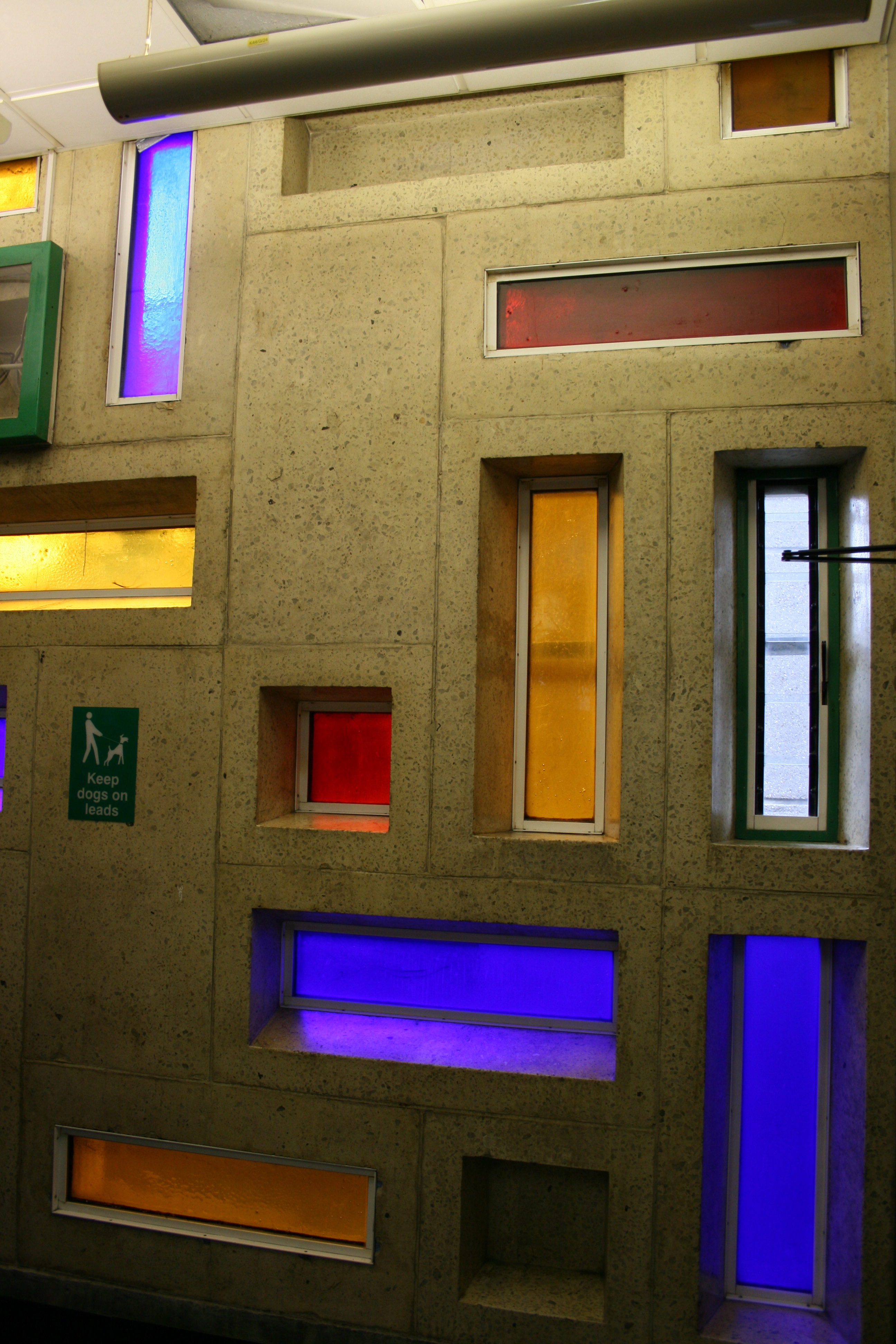 As part of the Open House London event, I went on a guided tour of Trellick Tower in North Kensington. The tour included a look around two of the residents flats. The residents were also our tour guides.